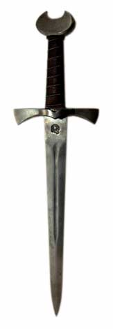 Photo by Jørgen Adam Holen Modern dagger fashioned after the kind which became popular in the 17th century, shaped like a medieval sword. manufacturer: Three Brothers Production (formerly K+K Art), , Prague, Czech Republic